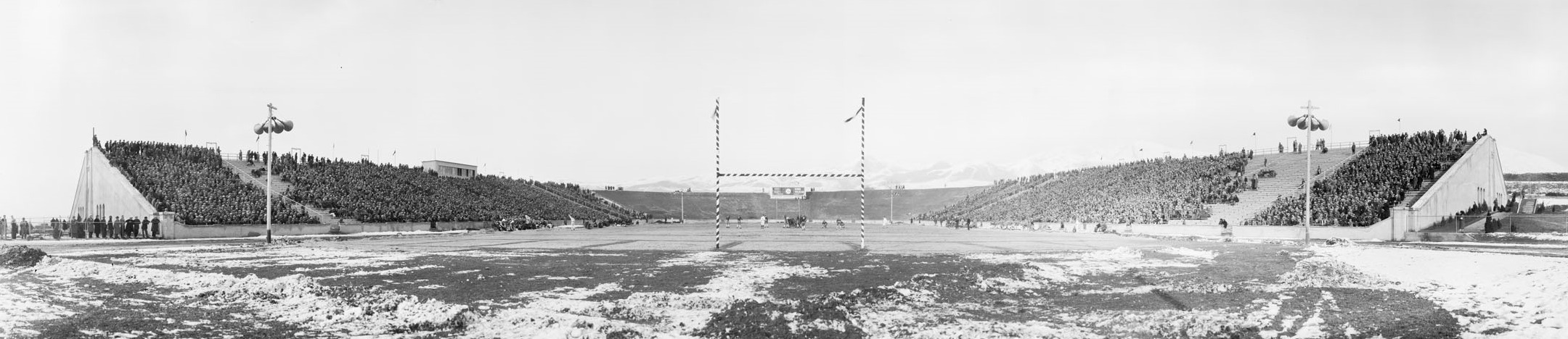 A panoramic view of Ute Stadium (later known as Rice Stadium) at the University of Utah. This photograph was taken in 1929, two years after the stadium's completion, and before any additions were made.